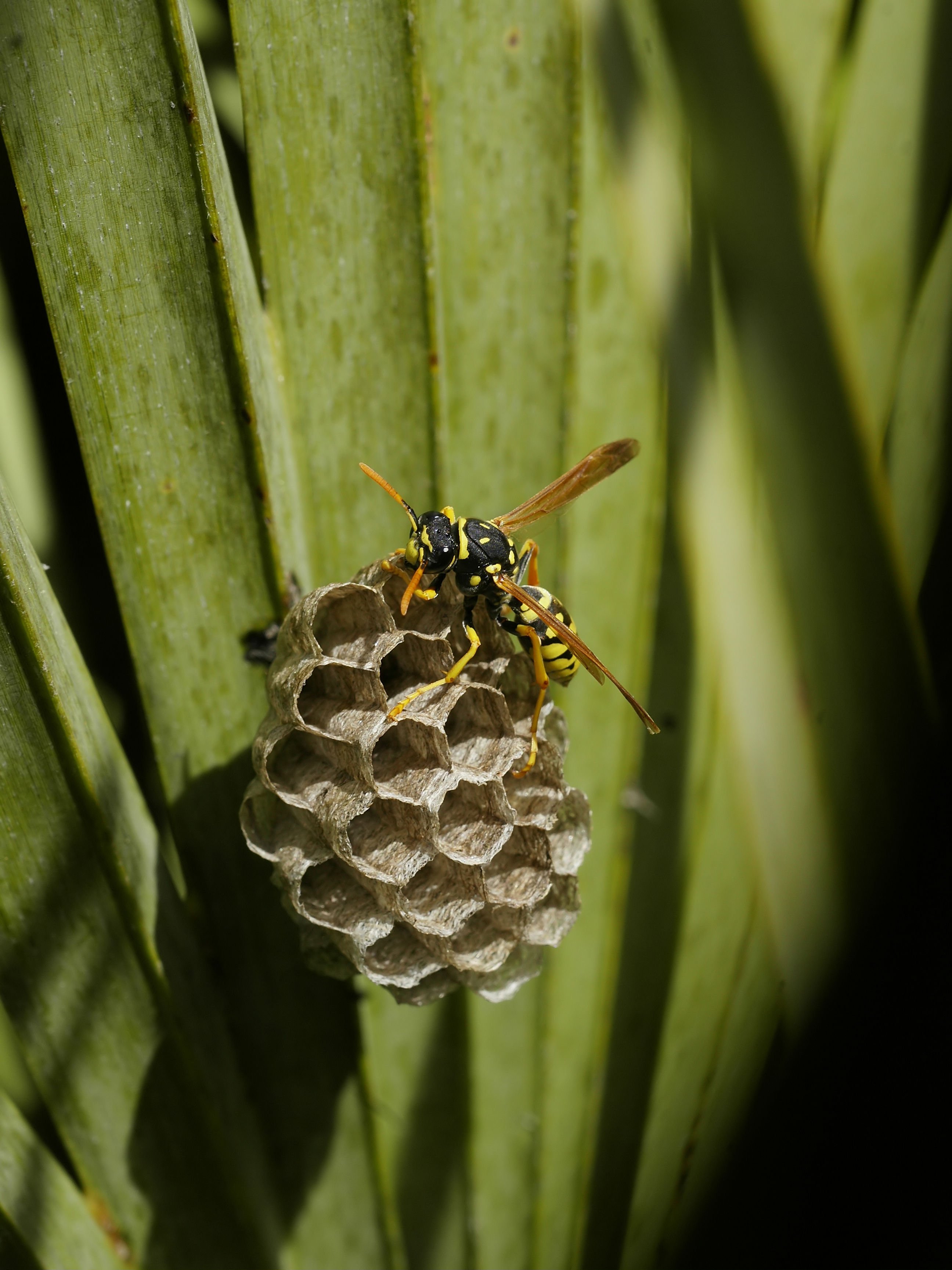 near el Perelló, Catalonia, Spain